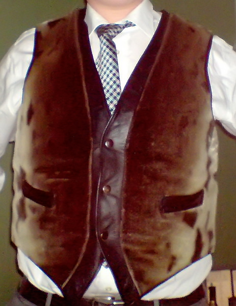 A vest made of seals.